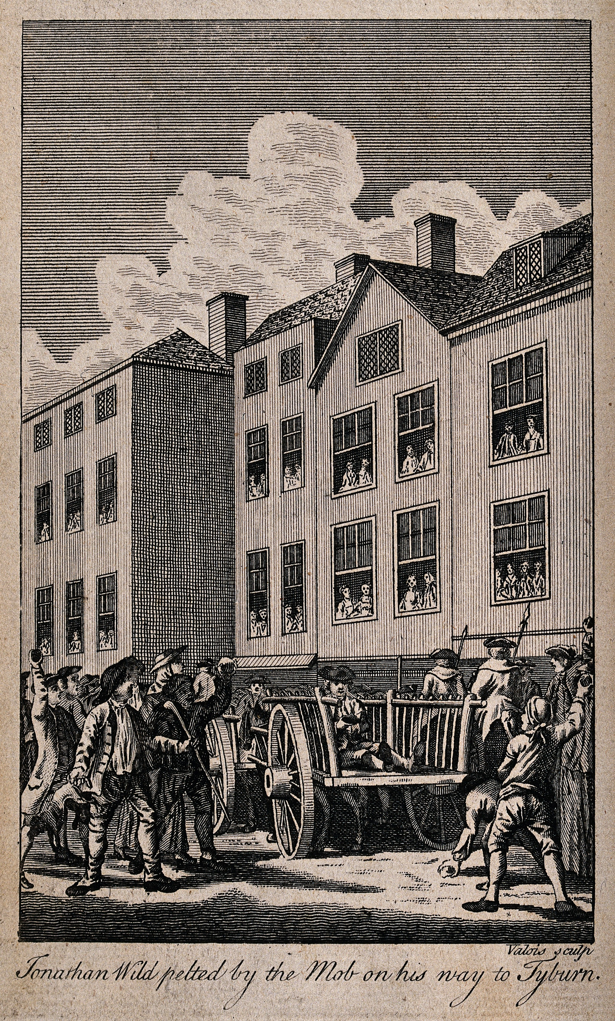 Jonathan Wild, the thief-taker, sitting on a cart, is pelted by the mob on his way to Tyburn. Engraving by Valois. Iconographic Collections Keywords: Valois